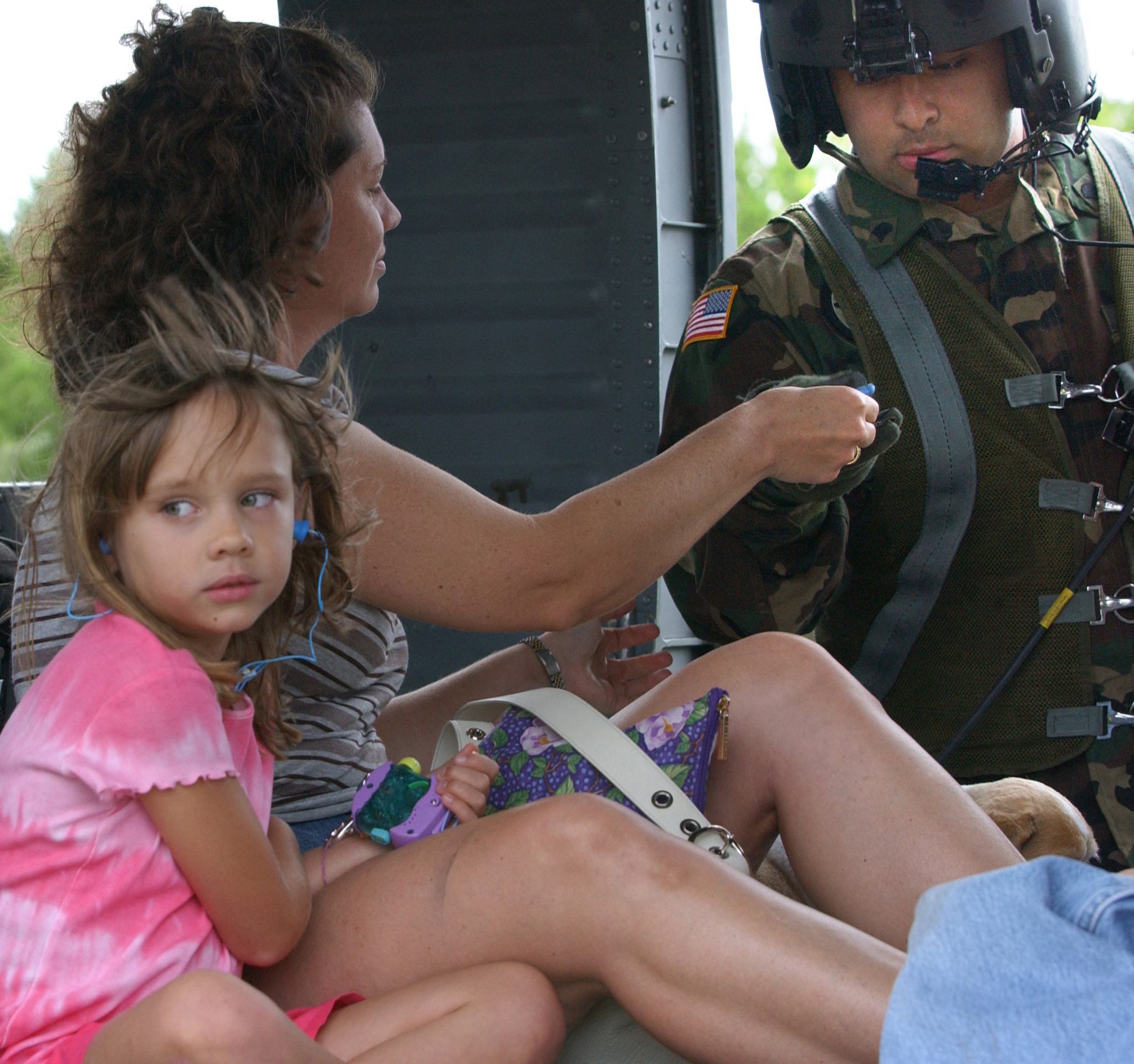 A girl and her mother prepare to be evacuated aboard a Texas Army National Guard UH-60 Blackhawk helicopter from flooded areas in Burnet County, Texas, June 28, 2007. Some 13,000–14,000 square miles (33,700–36,300 km2) of Texas were flooded by torrential rains, leading Texas Governor Rick Perry to mobilize the Texas National Guard in support of civil rescue and recovery efforts.